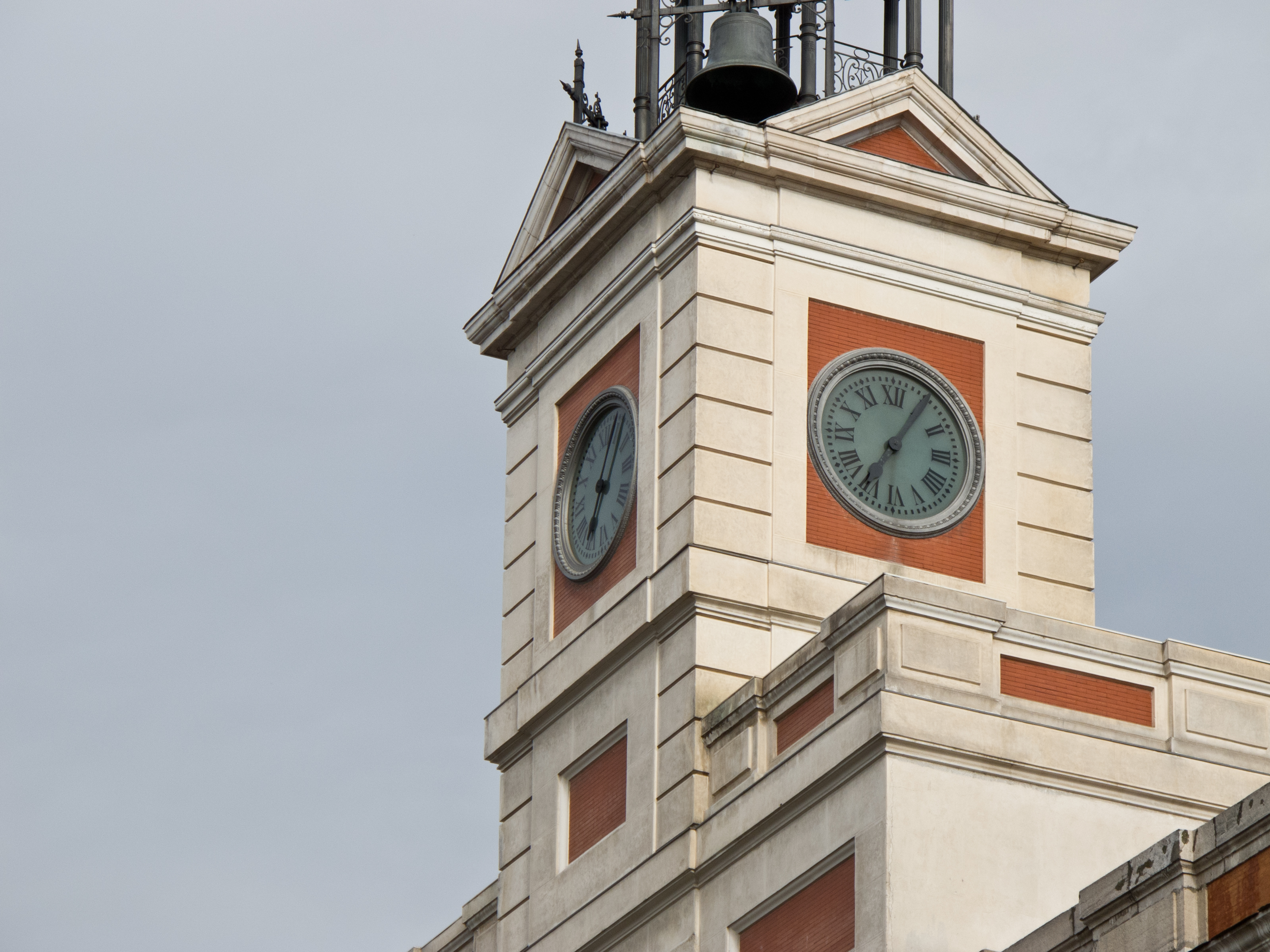 Real Casa de Correos (Royal Mail House), Madrid, Spain.